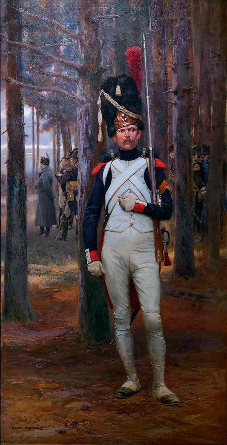 Grenadier of the Old Guard sentinel. In the background, Napoleon and his staff.